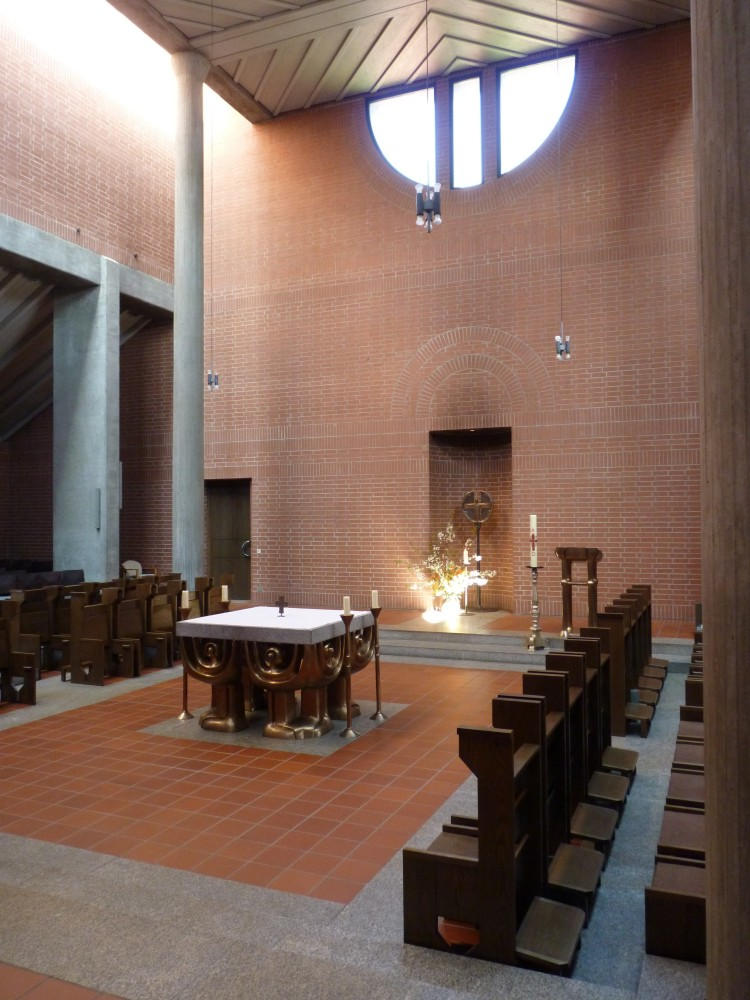 Inside St. Michael, Schwanberg near Kitzingen, Bavaria, Germany